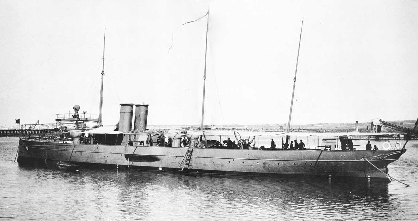 Spanish Navy torpedo gunboat Destructor, designed and built in the UK by Thomson and delivered to the Spanish Navy in 1887